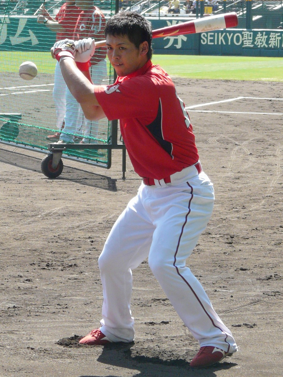 Tetsuya-Kokubo